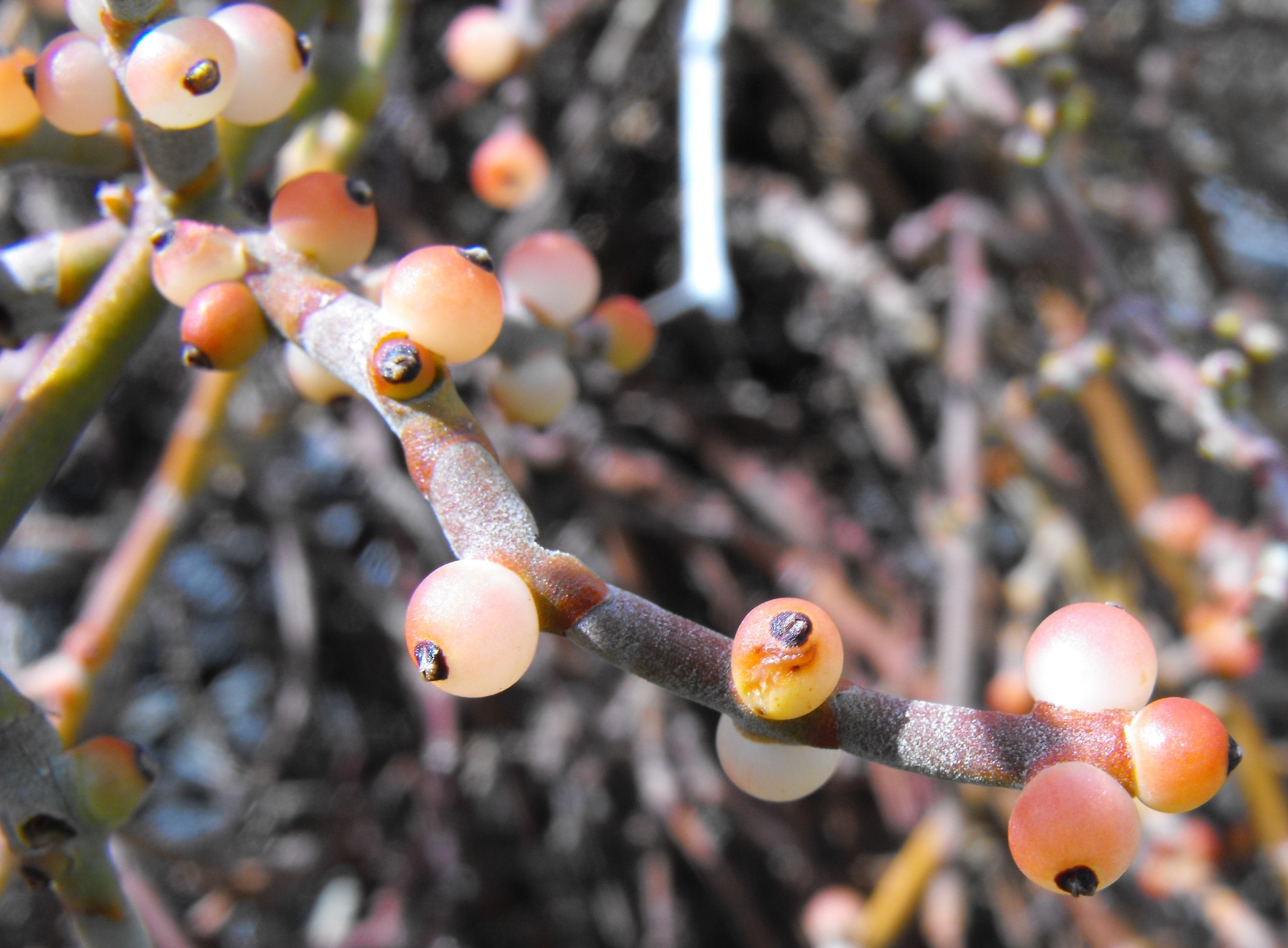 Fruit of Phoradendron californicum in Anza Borrego Desert State Park, California, USA.